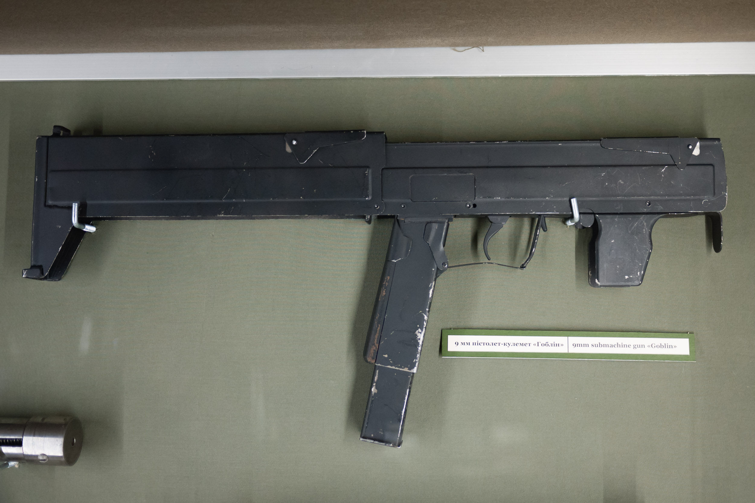 'Goblin' 9mm submachine gun by Ihor Oleksiyenko, National Military-Historical Museum of Ukraine